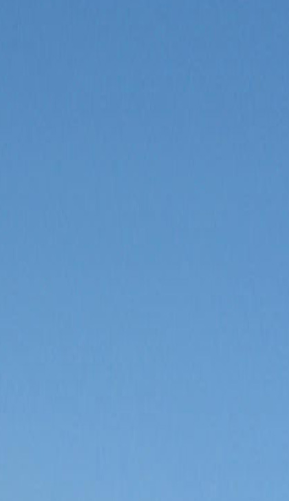 Blue sky used with other files to illustrate how a layer mask works.